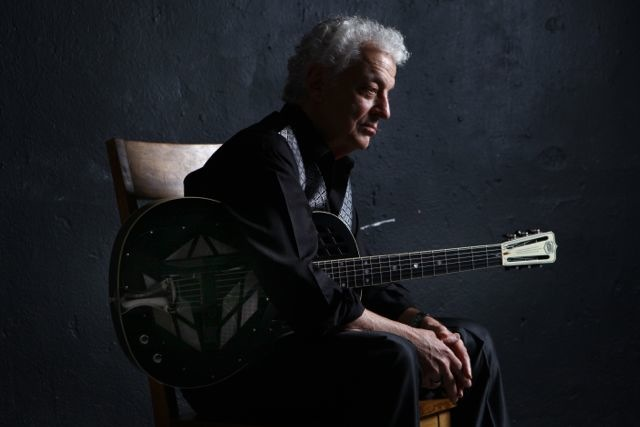 Photograph of Doug Macleod (Blues Musician)